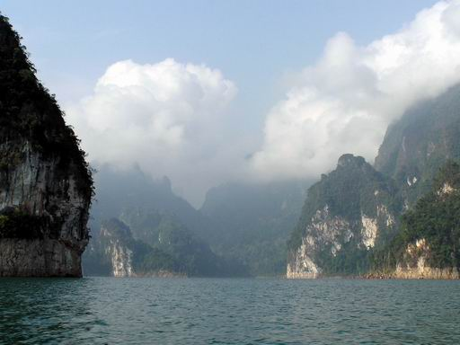 Chiew-lan Dam, Thailand